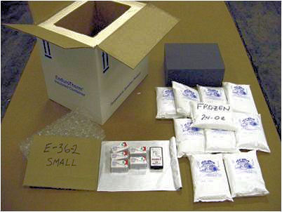 Packaging and components used to keep drugs cold during shipment